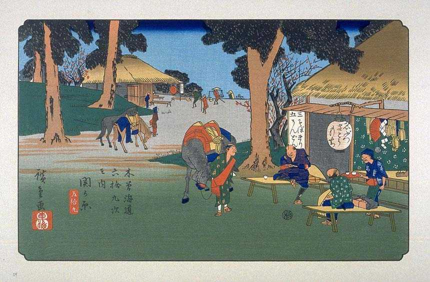 Sekigahara on the Kisokaido, ukiyo-e prints by Hiroshige